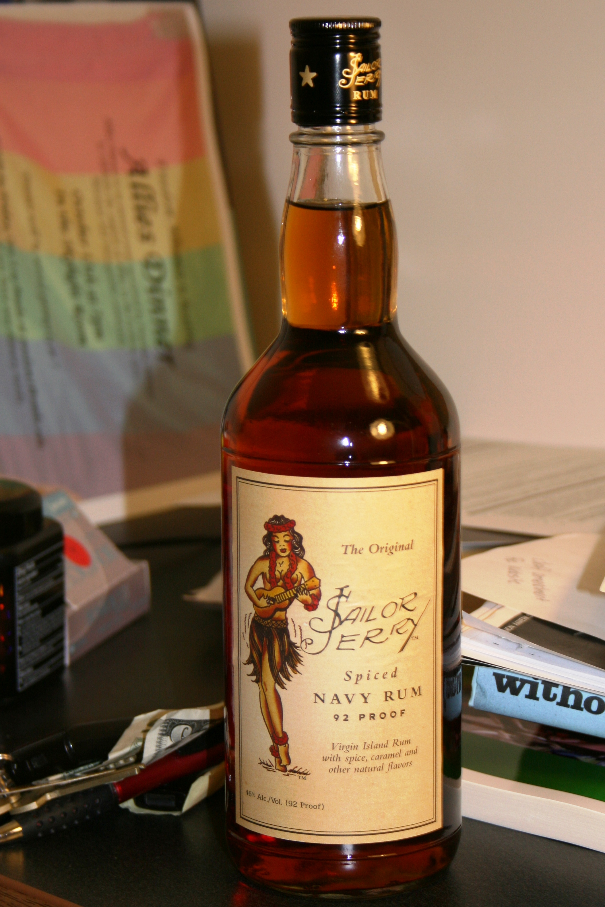 An unopened bottle of Sailor Jerry's Spiced Navy Rum (92 Proof)